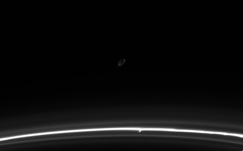 Tiny moon looking like a lump of charcoal floating out beyond the ring that it's gently distorting Courtesy NASA/JPL-Caltech